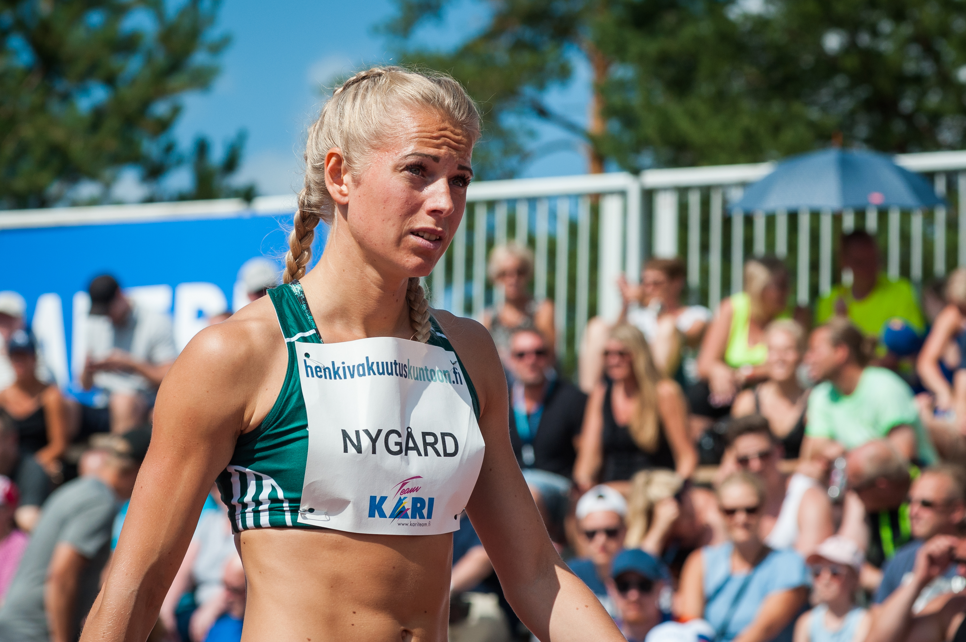 Women's 200 m competition at the 2018 Kalevan Kisat, the Finnish championships in athletics, in Jyväskylä, Finland.